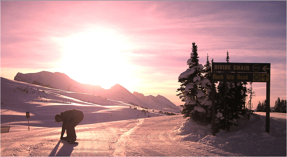 Sunshine Village ski area at dawn. This picture was taken on a digital camera by David Kirk during a trip to Sunshine Village Ski and Snowboard Resort (Banff, Alberta, Canada) in February 2005.